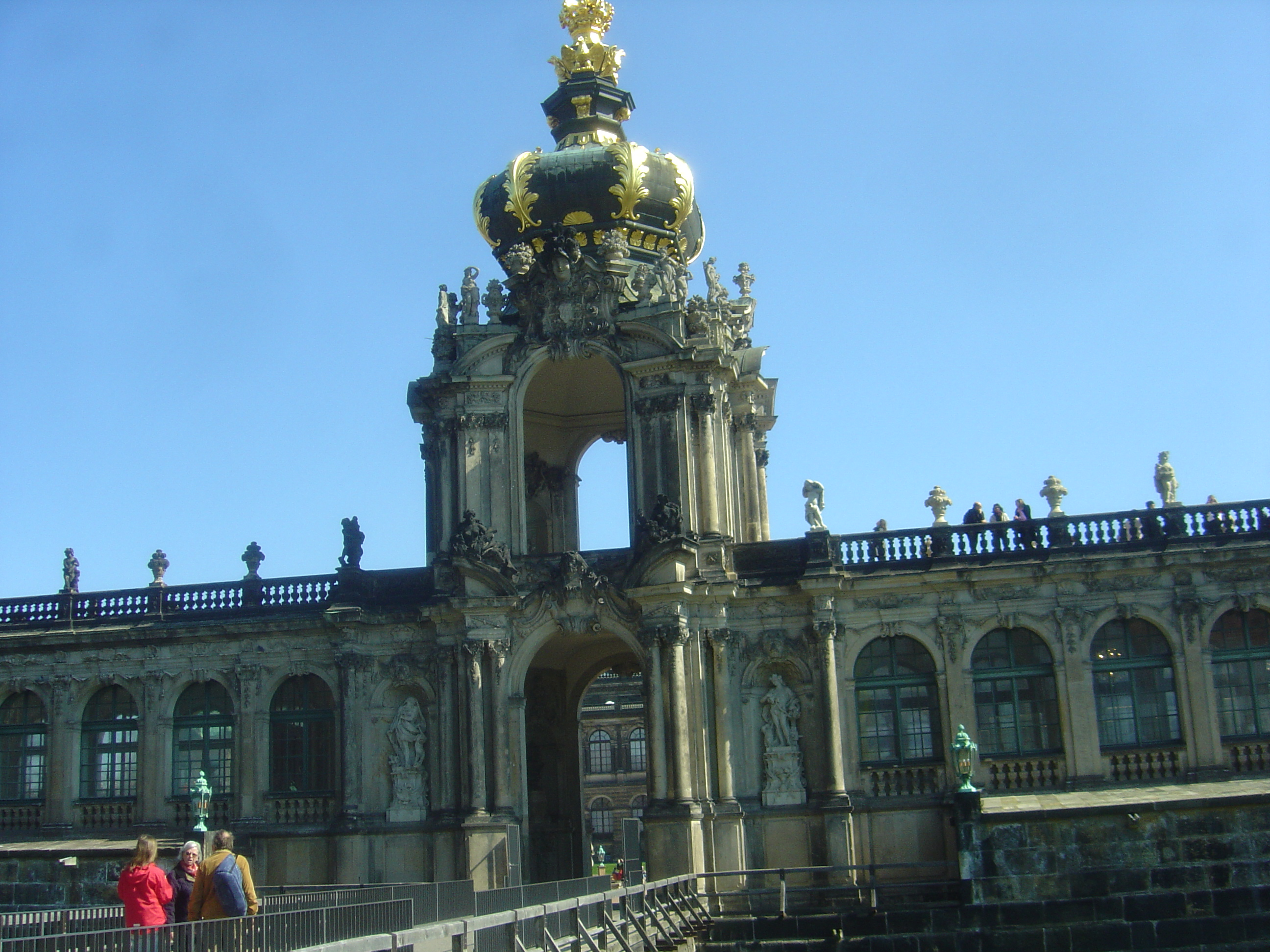 Zwinger, Dresden, Germany